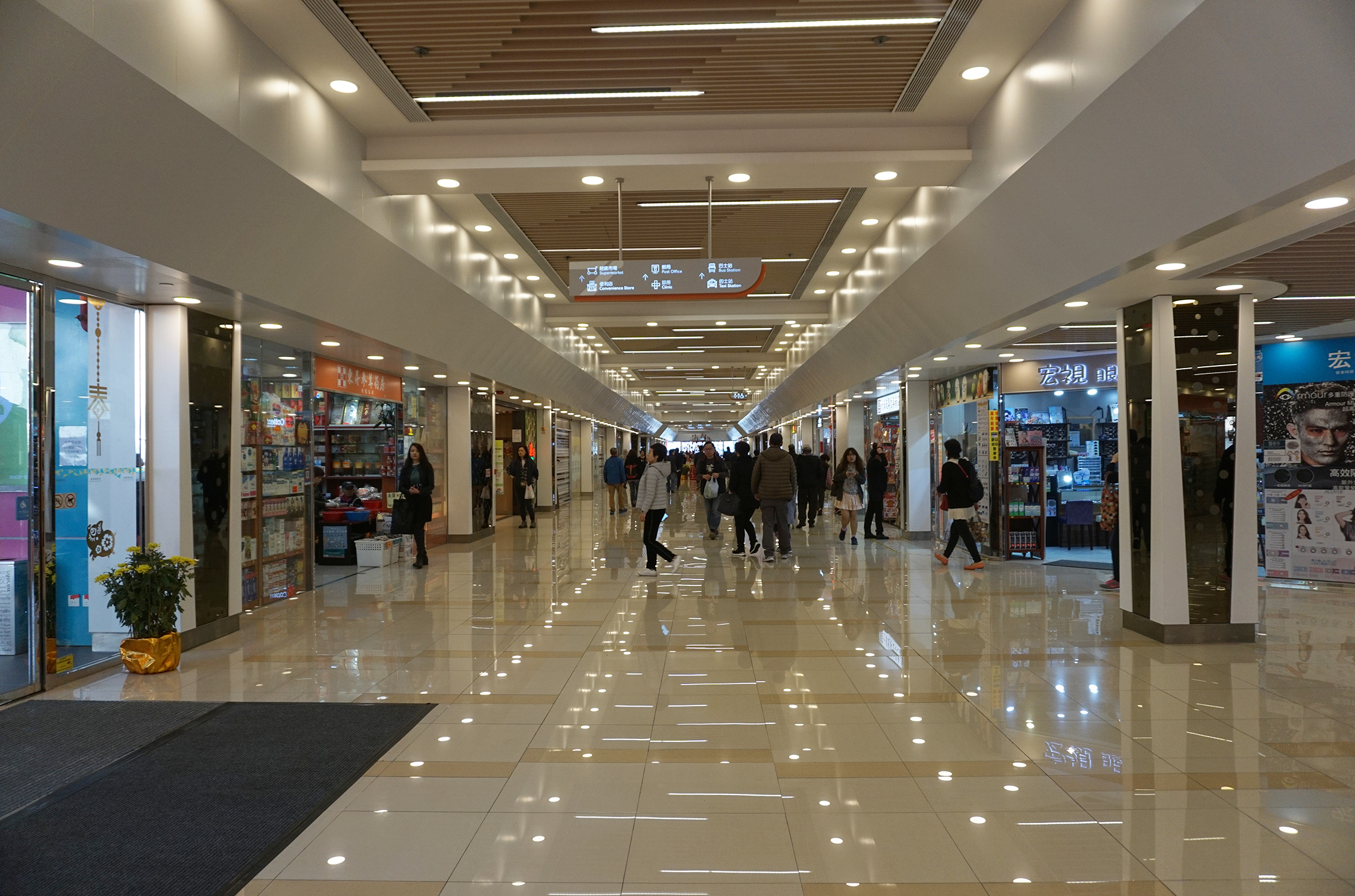 Wan Tau Tong Square in Tai Po, Hong Kong.